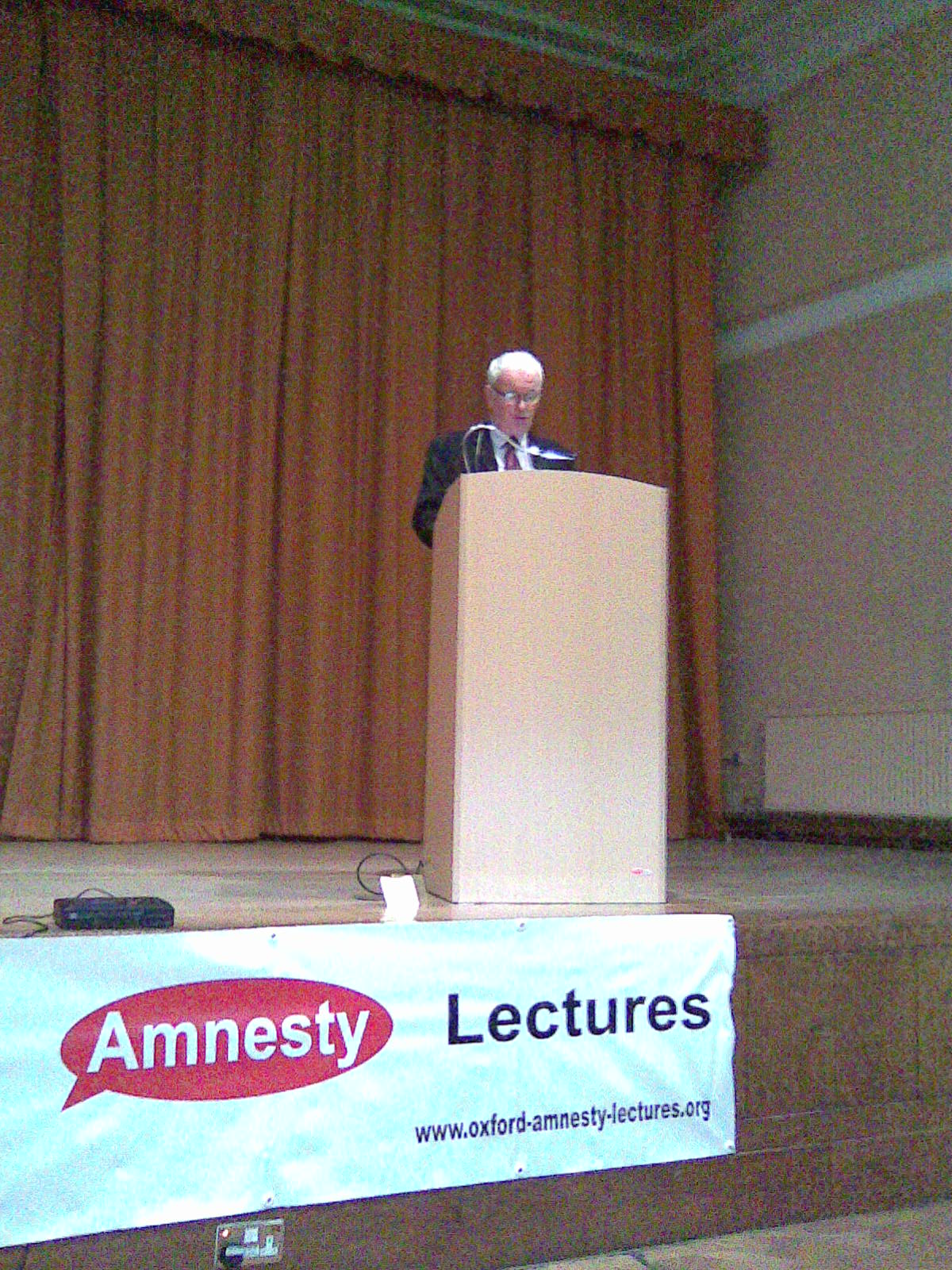 Robin Blackburn giving one of the Oxford Amnesty Lectures 2010.